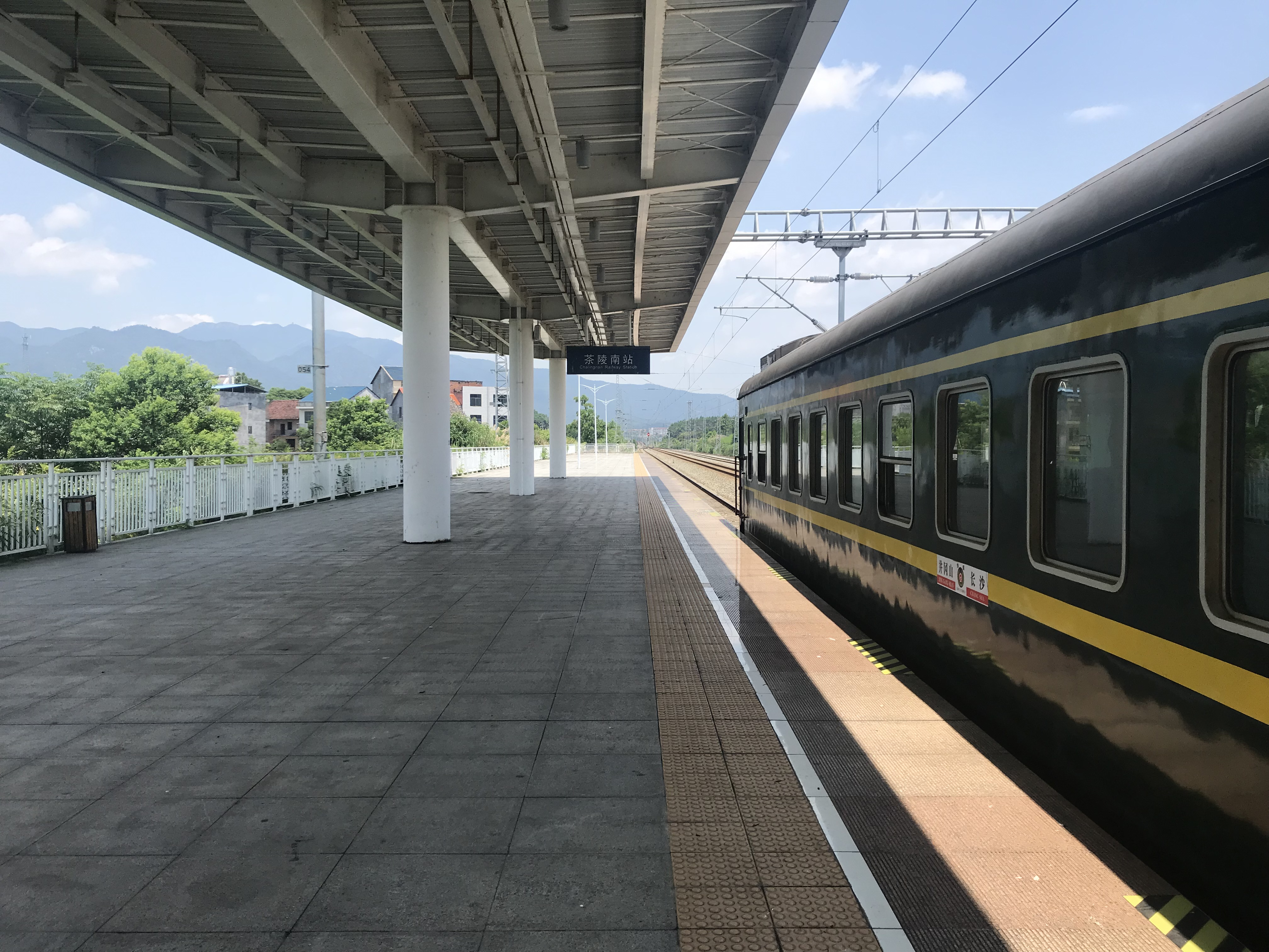 201906 Platform of Chalingnan Station (1)